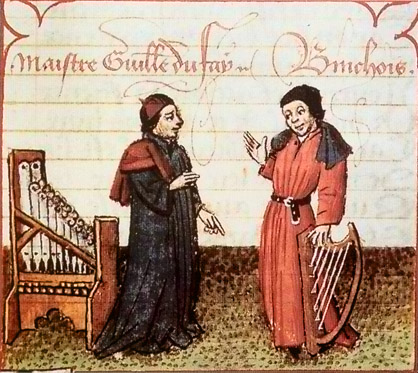 Ms Fr 12476 fol.98 Guillaume Dufay (d.1474) and Gilles Binchois (d.1460)